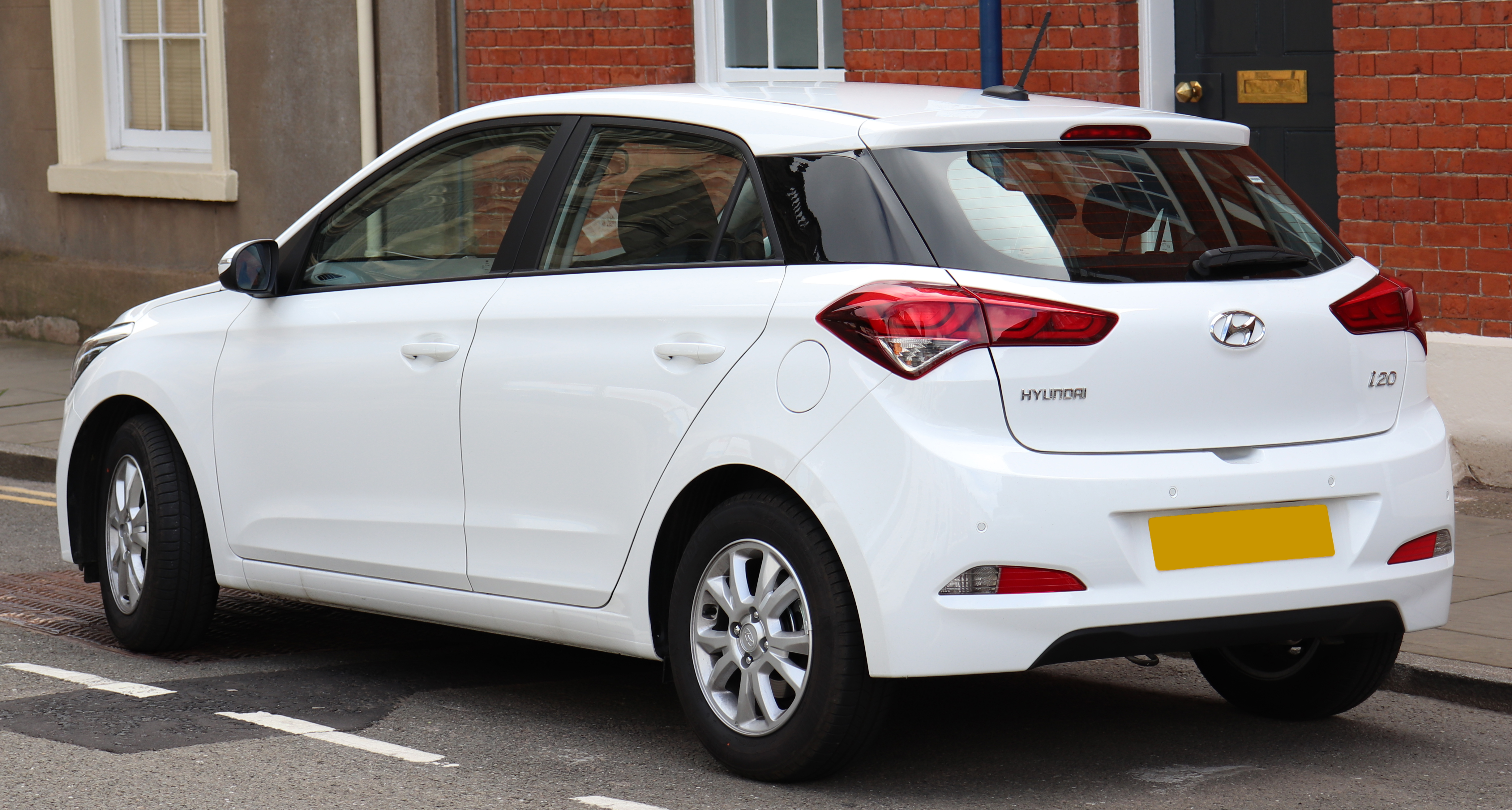 2018 Hyundai i20 SE MPi 1.2 Rear Taken in Warwick